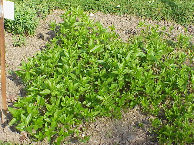 Species: Mercurialis ovata Family: Euphorbiaceae Image No. 3